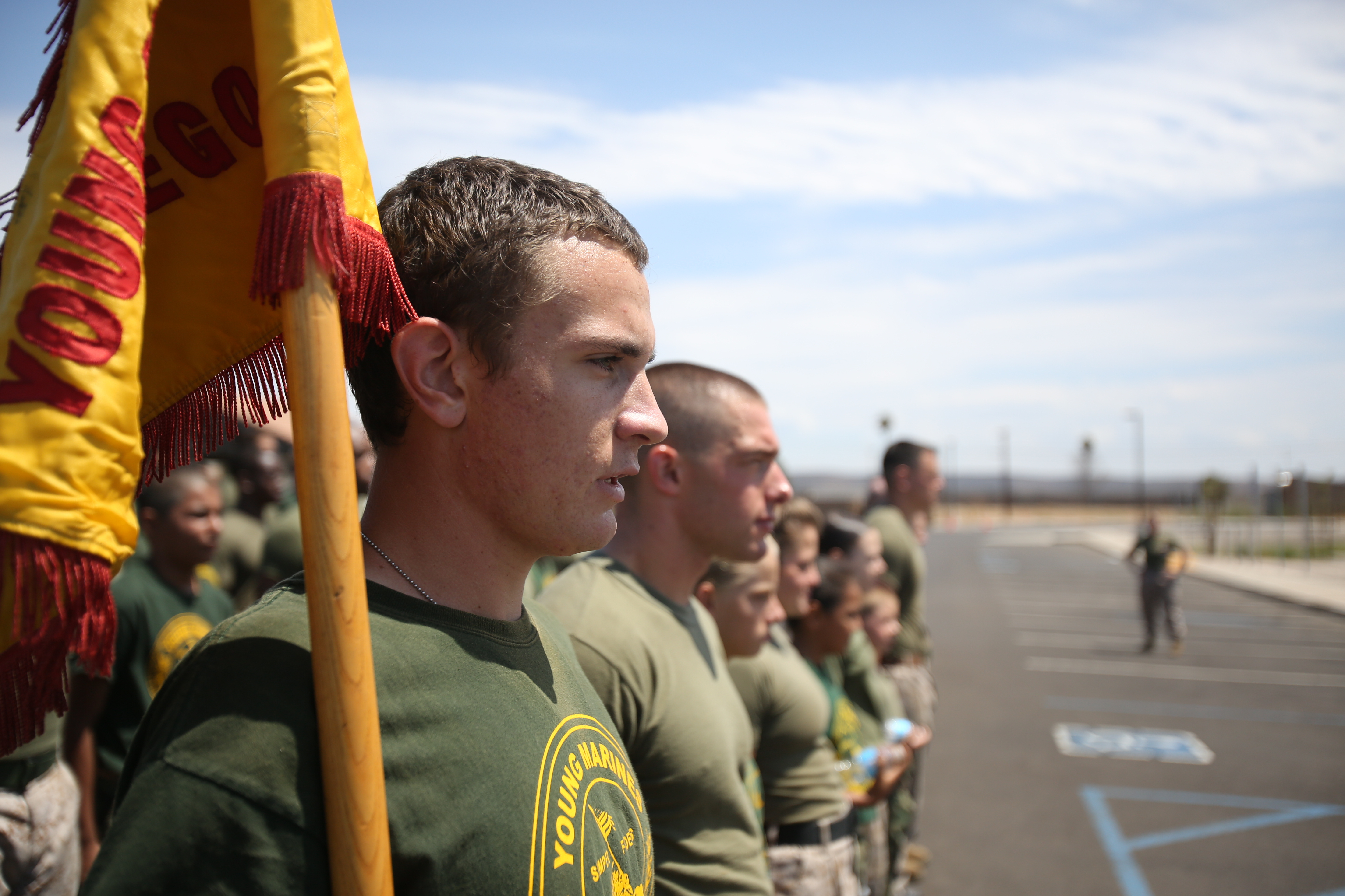 Young Marine Pfc. Robert Fabregas, 15, stands as guide for the San Diego Young Marines at the Big Marine Little Marine event at Mills Park aboard Marine Corps Air Station Miramar, Calif., Aug. 24. Fabregas led his fellow Young Marines in a run alongside active-duty Marines during a motivational run at the end of the event.